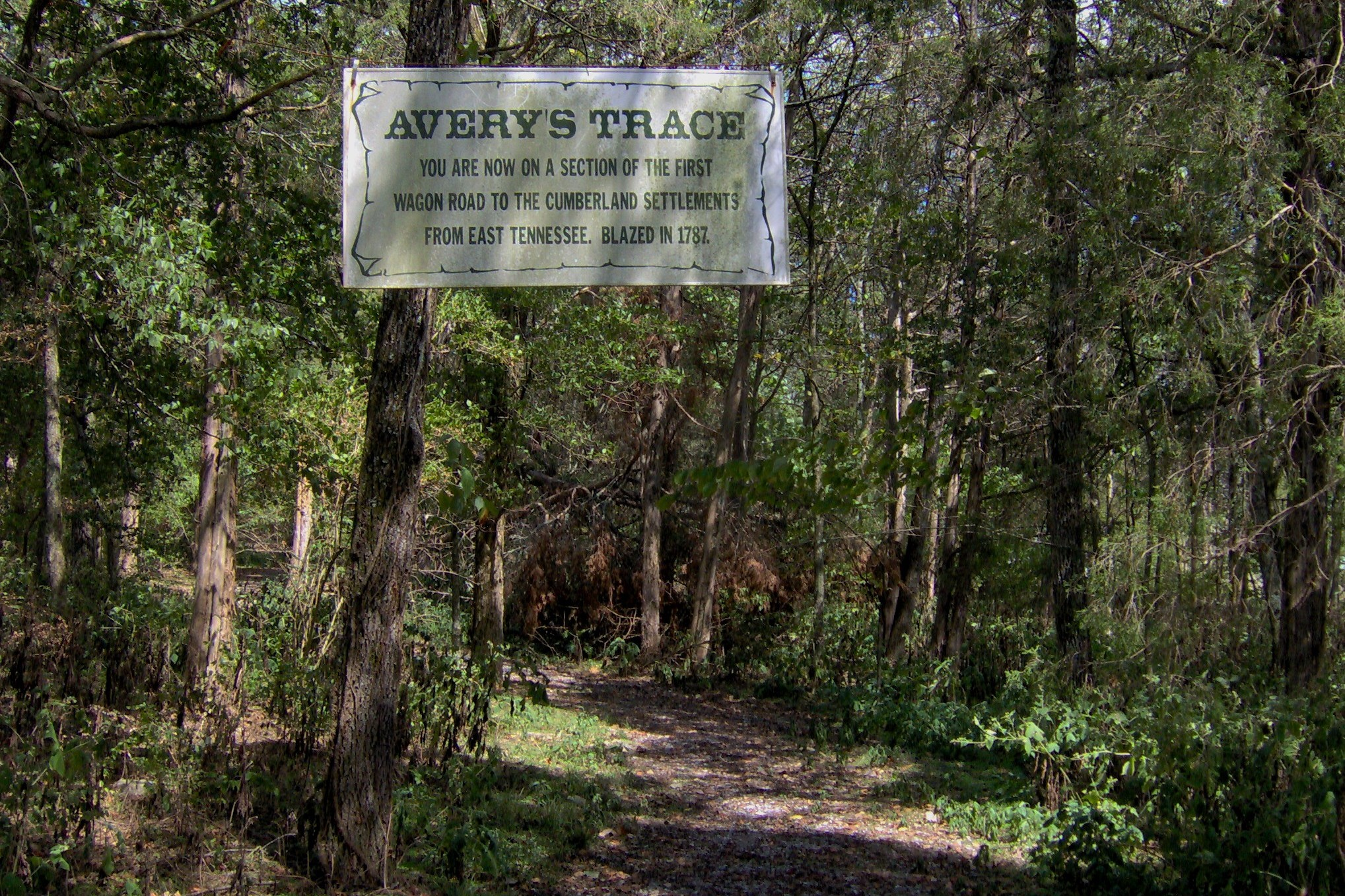 Sign marking a section of Avery's Trace at Bledsoe's Fort Historical Park in Sumner County, Tennessee, in the southeastern United States. Avery's Trace was an 18th-century wagon road connecting East and Middle Tennessee.